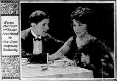 Newspaper advertisement for the American romantic comedy film Nancy from Nowhere (1922) with A. Edward Sutherland and Bebe Daniels, on page 4 of the February 25, 1922 Duluth Herald.